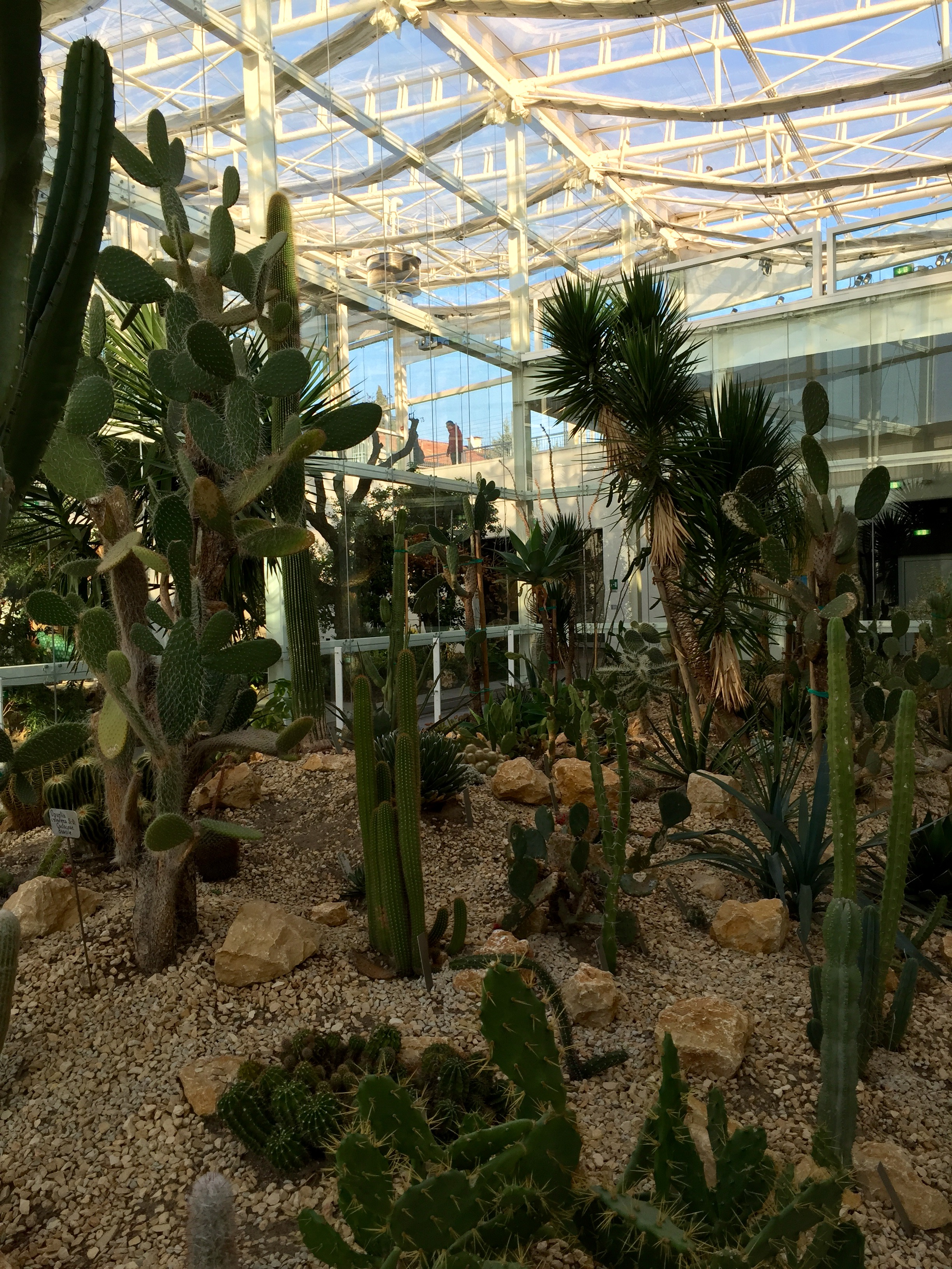 Giardino della Biodiversità, Serra Arida